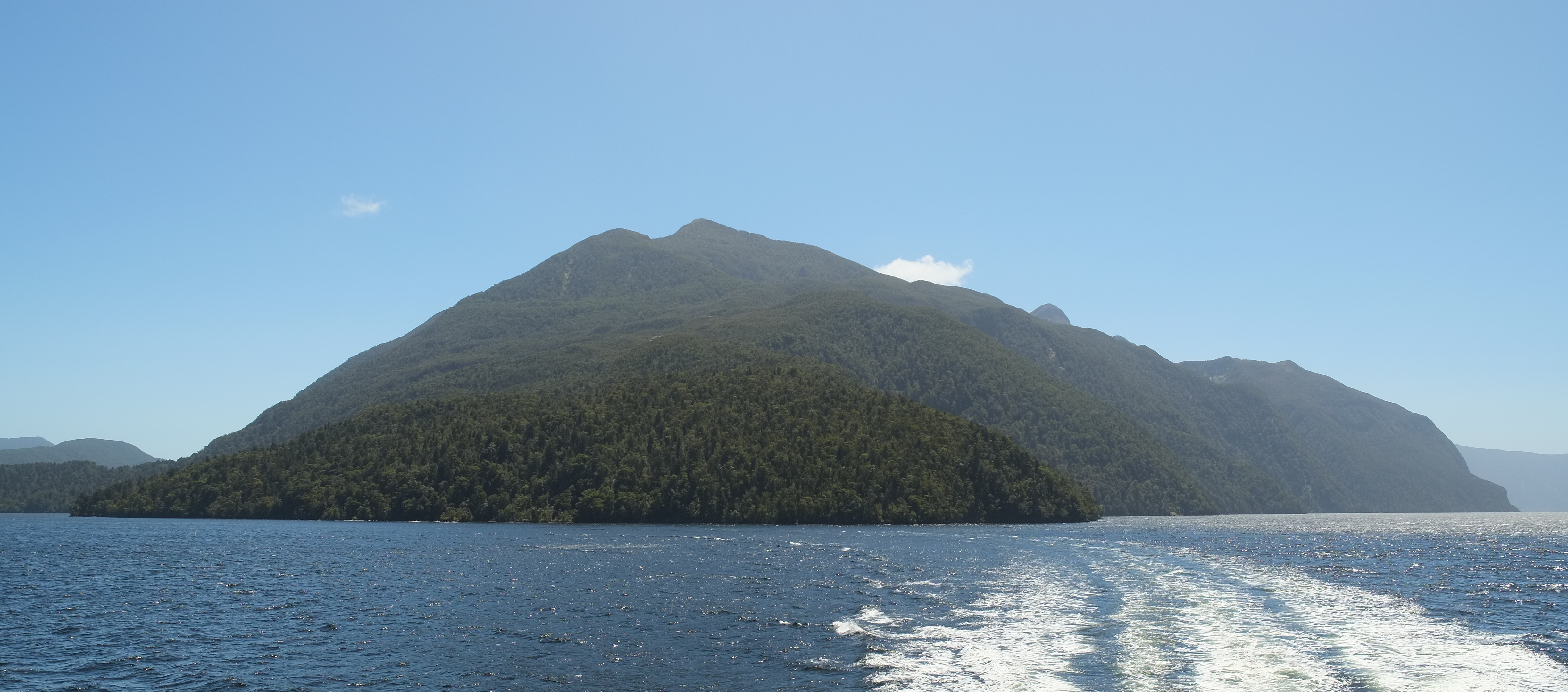 Secretary Island from Pendulo Reach of Doubtful Sound; Thompson Sound to the right